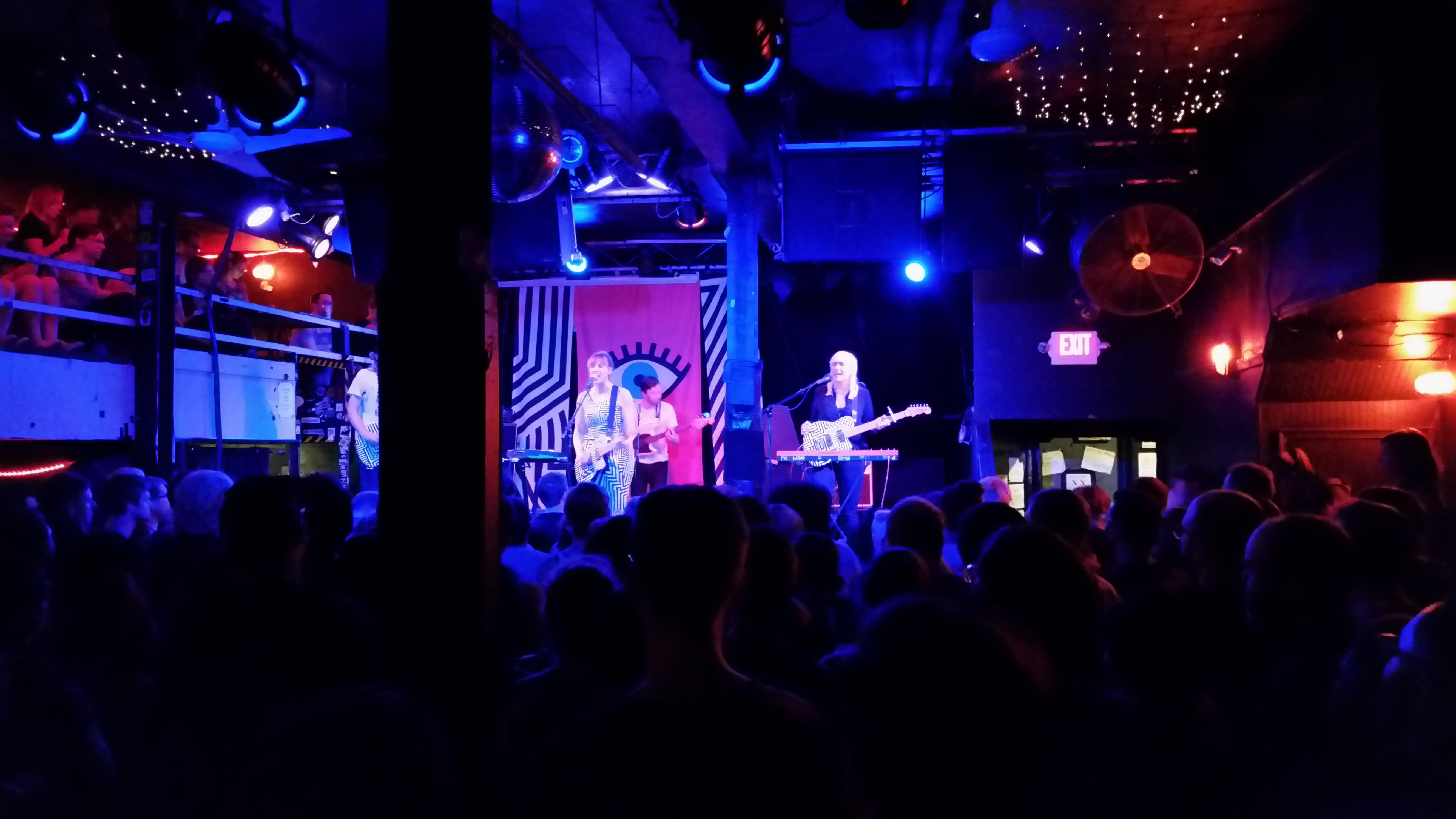 Ottobar Concert Hall in Charles Village, Baltimore, MD, June 2017.